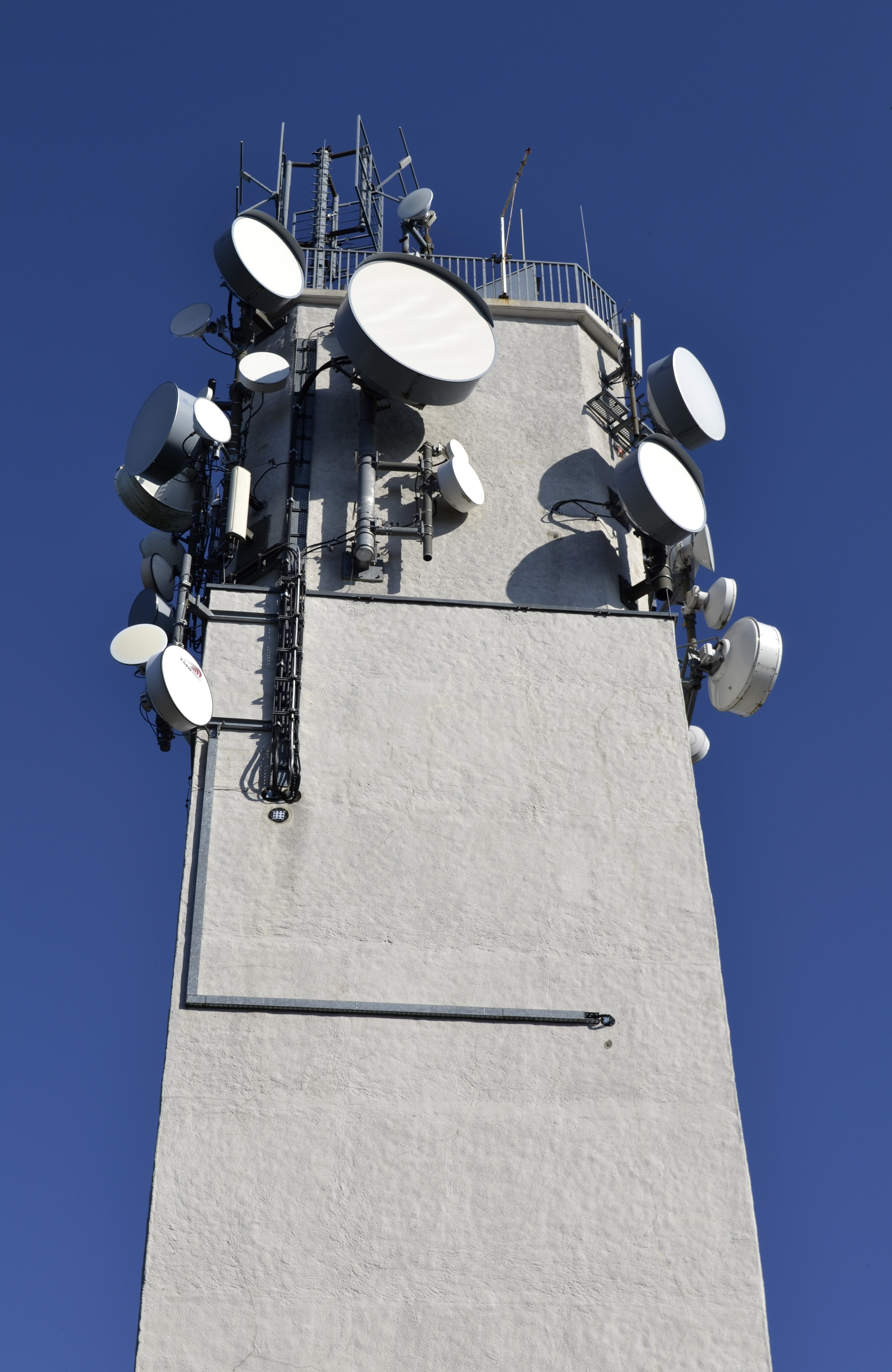 The Observation tower in the Fronwald near Schärding in Upper Austria.